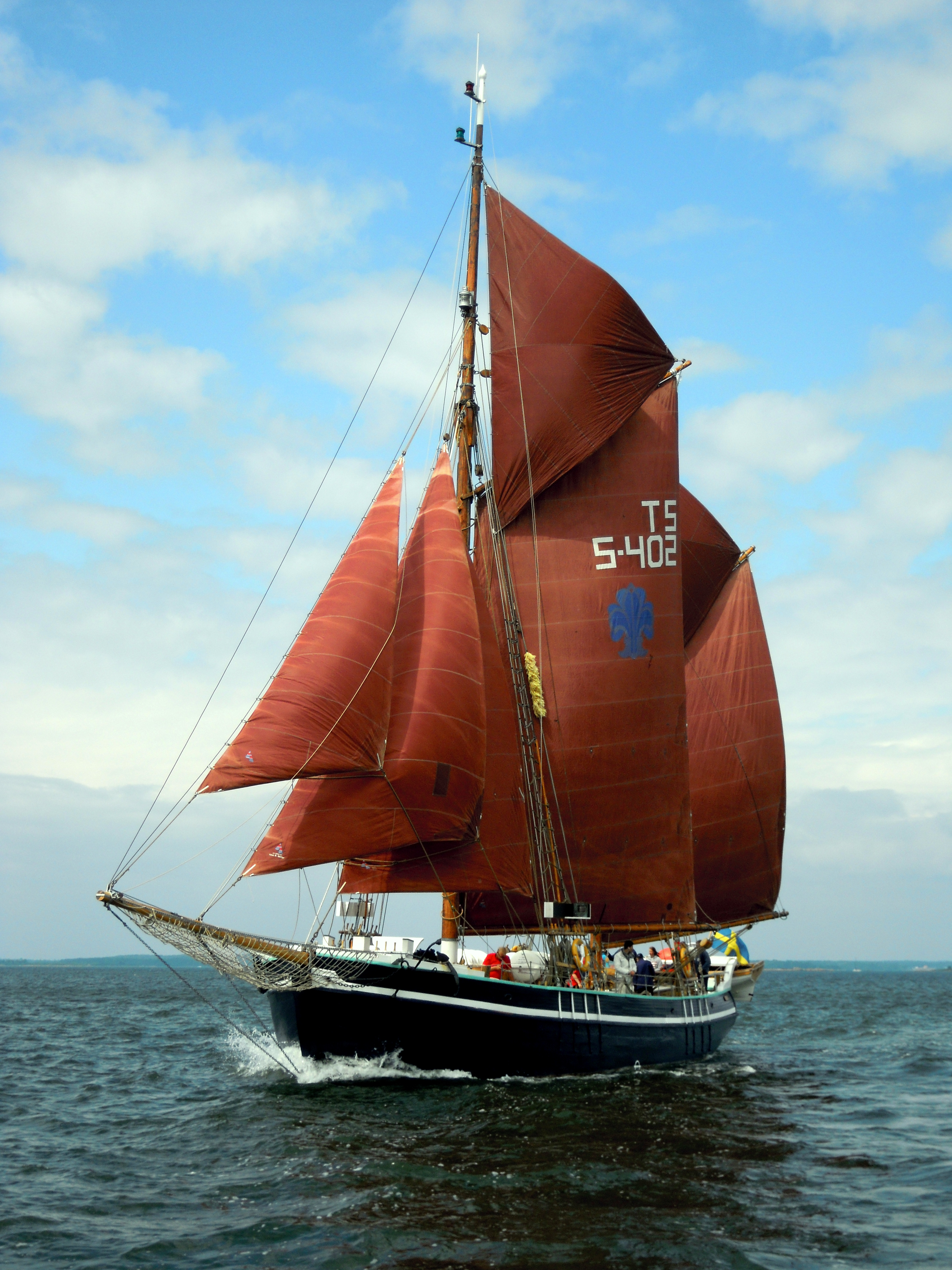 Sail ship Sarpen (1892) at the yacht race at Karlskrona